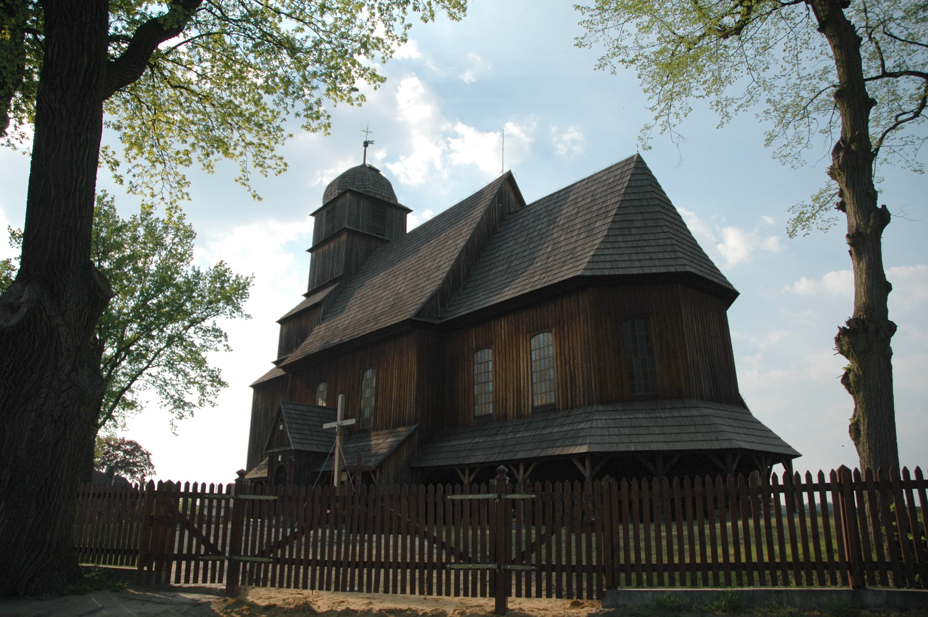 Poland, Trzebicko - St. Matthias wooden church